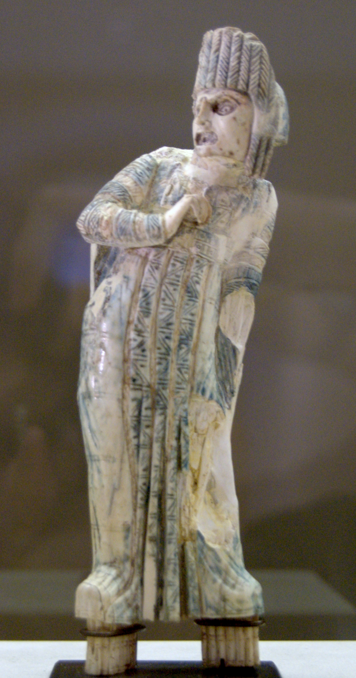 Tragic actor. Polychrom ivory statuette, 1st century. From Rome?